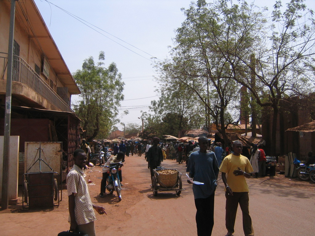 Kati (Mali) market street. (And my Geekcorps colleague Amadu :) Taken by Guaka